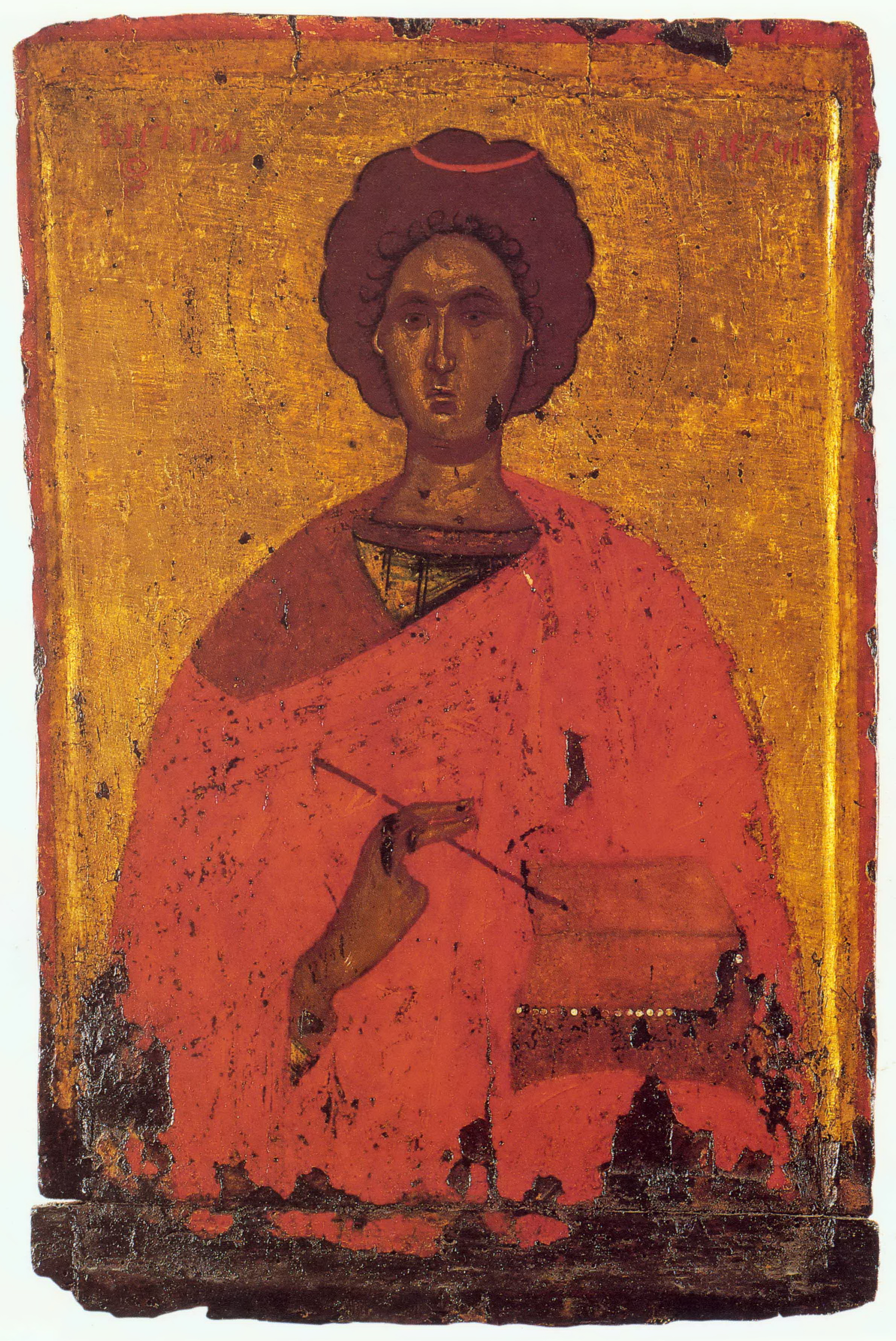 icon of s.Panteleimon, Pushkin museum.